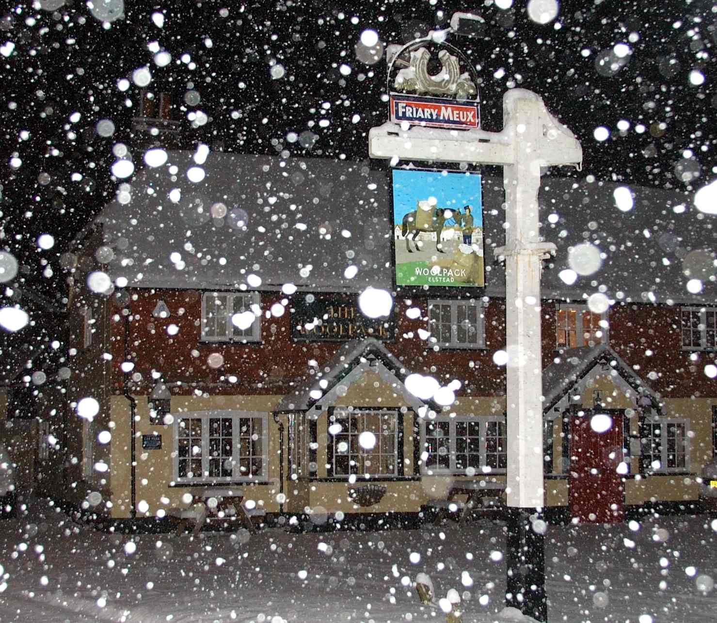 The Historic Pub on the Village Green photographed at night by flashlight.